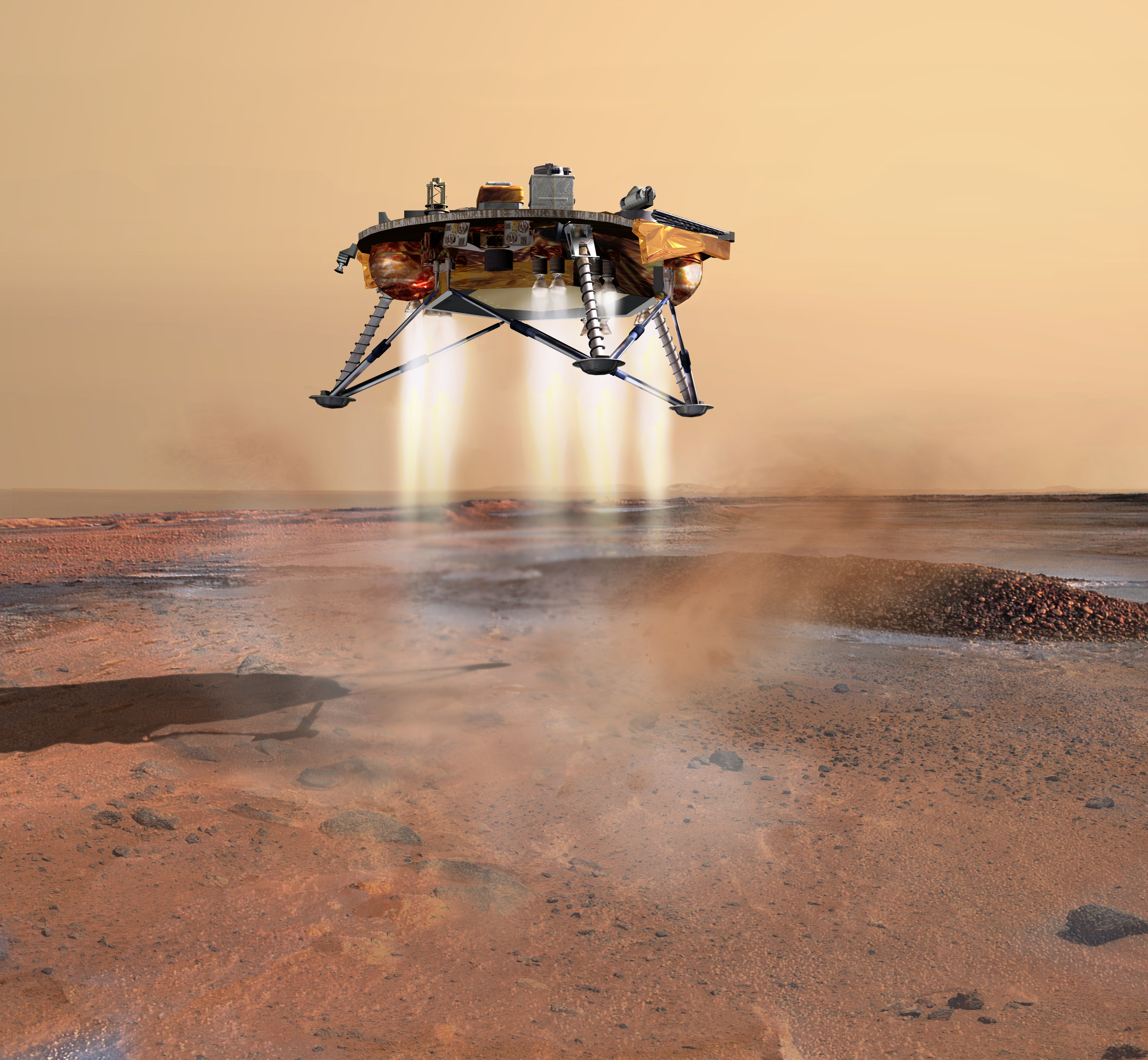 An artist's rendition of the Phoenix Mars probe during landing. The sophisticated landing system on Phoenix allows the spacecraft to touch down within 10 kilometres (6.2 mi) of the targeted landing area. Thrusters are started when the lander is 570 metres (1,870 ft) above the surface. The navigation system is capable of detecting and avoiding hazards on the surface of Mars.